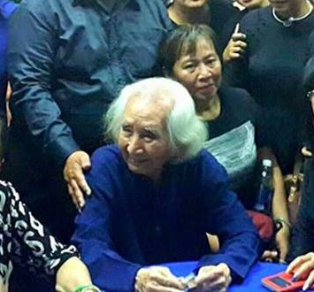 Nguyen Vinh Bao musician